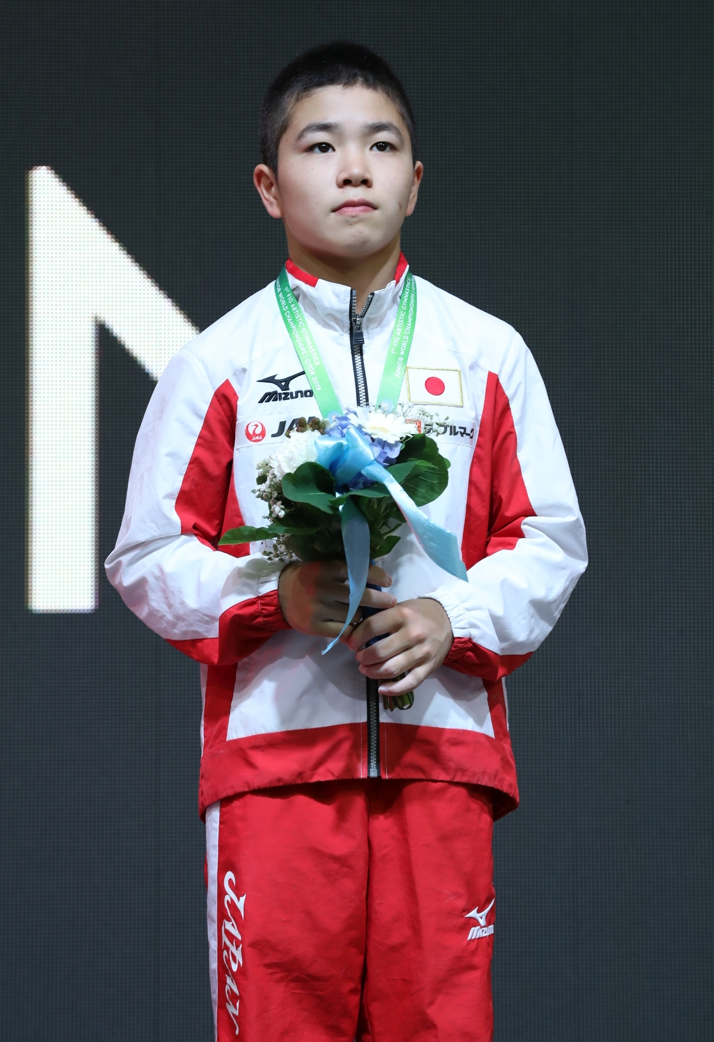 Pommel horse victory ceremony during the boys' apparatus finals at the 1st FIG Artistic Gymnastics Junior World Championships on 29 June 2019 in Győr, Hungary. Depicted: Shinnosuke Oka.